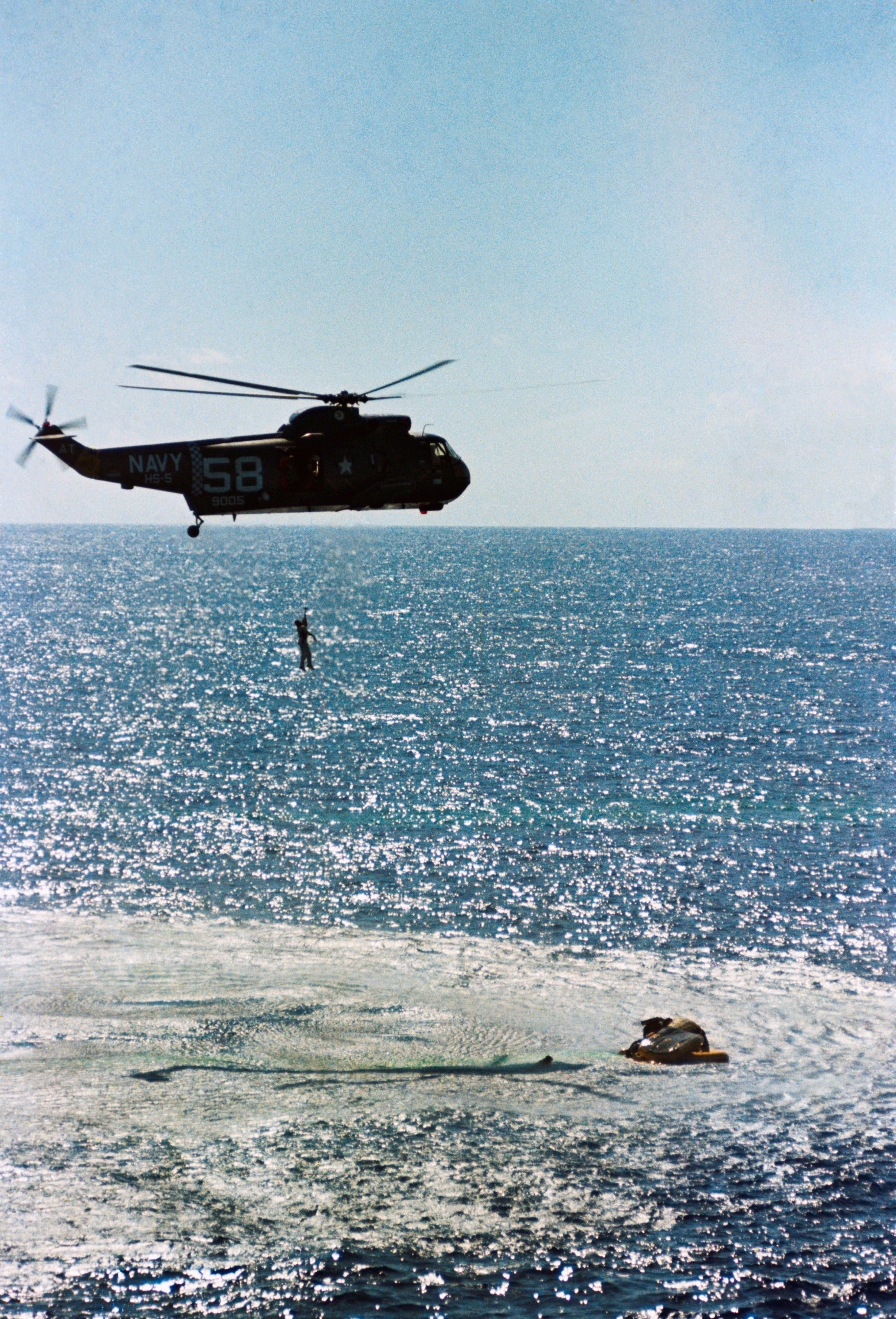 Long range view of astronaut L. Gordon Cooper Jr. being hoisted up to a Navy helicopter during recovery operations in the Atlantic Ocean of the Gemini-5 spacecraft.